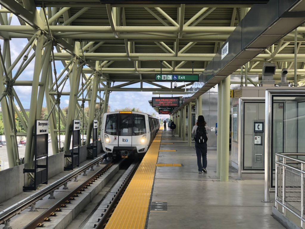 A San Francisco/Daly City–bound BART train arrives at Berryessa–North San José station on the station’s first day of fare service.